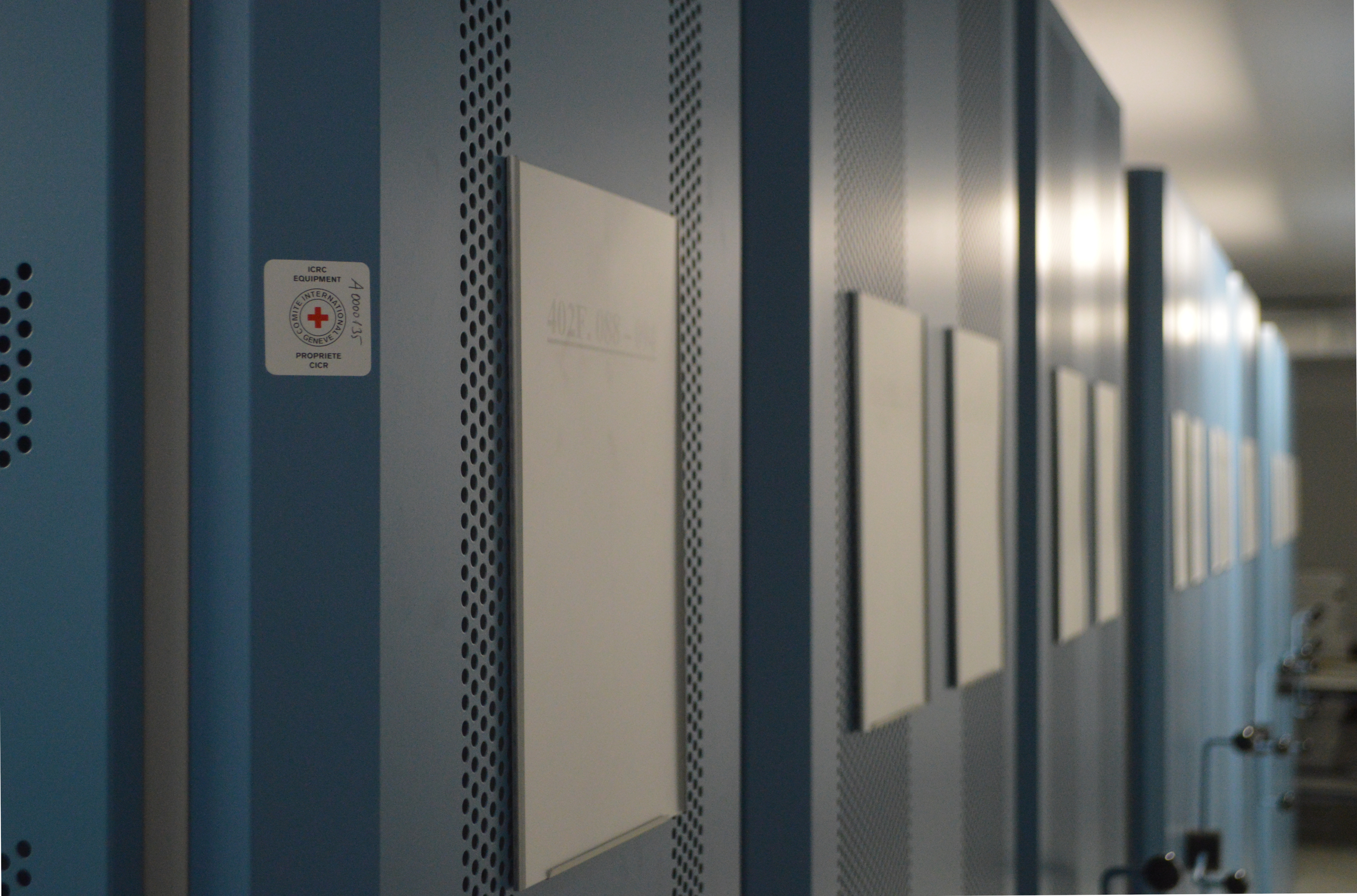 Record shelves in the International Committee of the Red Cross (ICRC) public archives at its headquarters in Geneva, Switzerland. - Photo taken and uploaded in the context of the International Archives Week 2020 of Wikimedia Switzerland, Austria and Germany and the Association of Swiss Archivists.